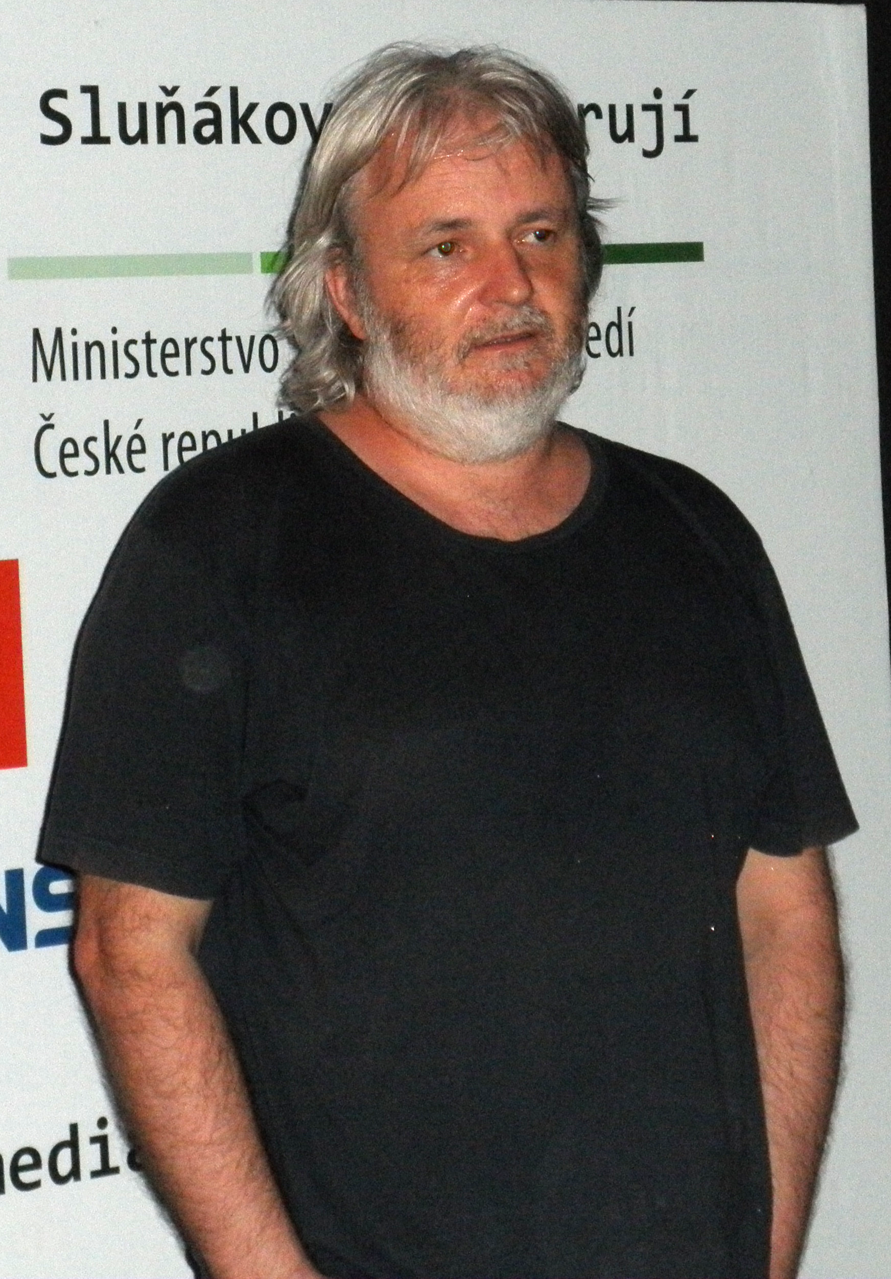 Photo of the Czech biologist Jan Zrzavý in 2012. (Red eyes effect removed.)